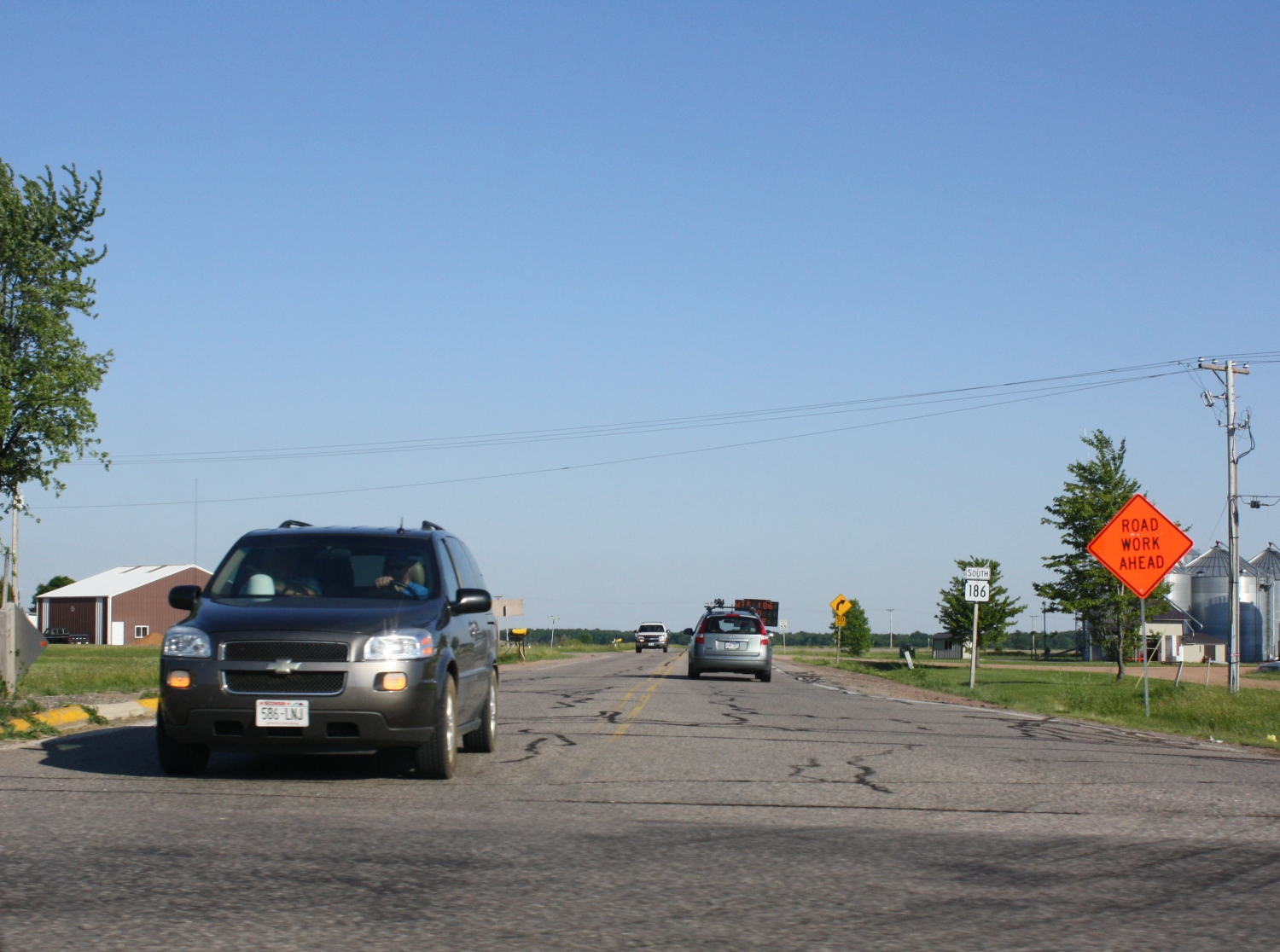 Looking southerly at the north terminus for Wisconsin Highway 186.